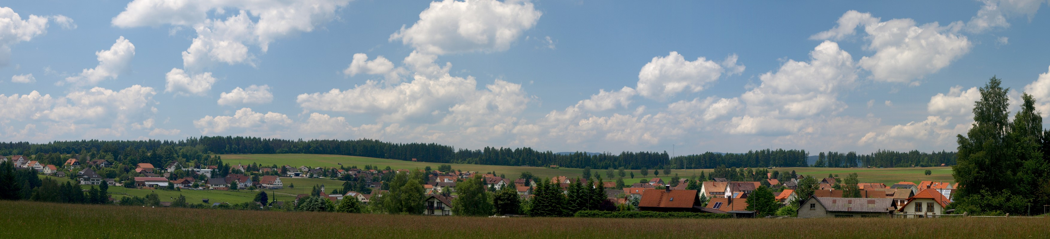 Panoramic view of Seewald and Besenfeld